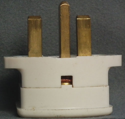 An early MK plug to BS 1363 which shows non-sleeved L/N pins and inspection hole in top.